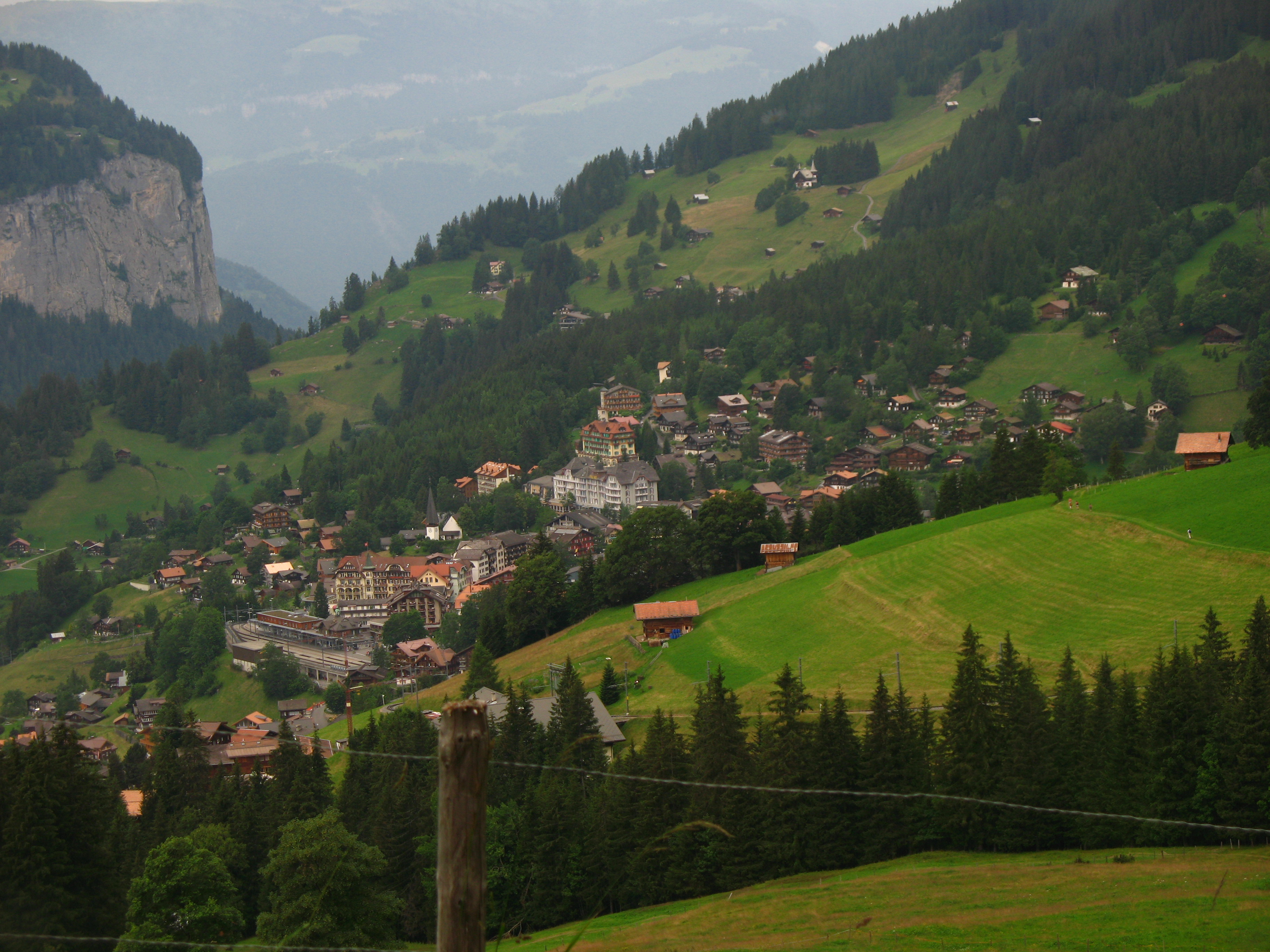 Wengen viewed from the Wengernalpbahn, Switzerland